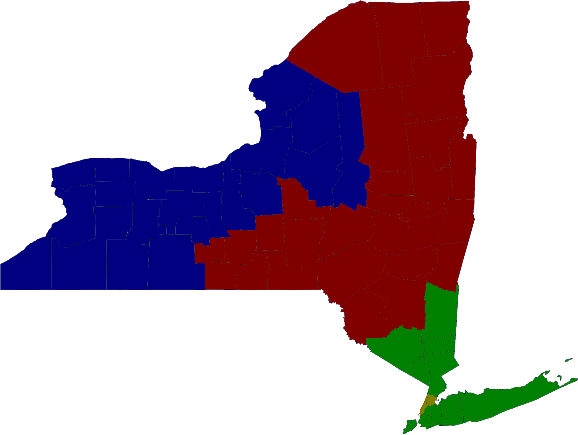 Map of the departments of the New York Supreme Court, Appellate Division